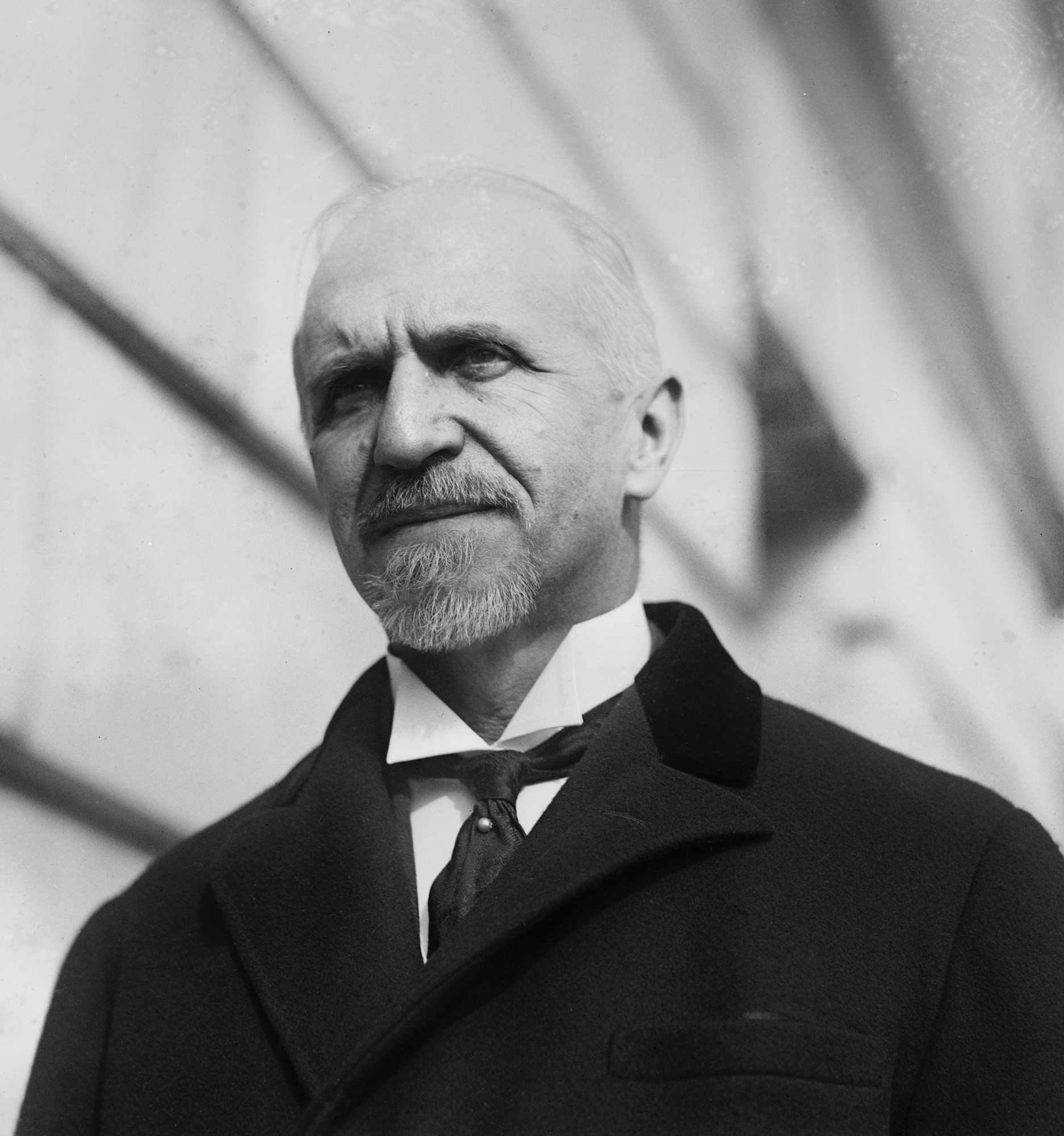 Representative Ernest R. Ackerman of N.J. known as the most traveled man in Congress who has recently returned from an investigating trip through all the cemeteries in France in which American Soldiers are buried. Mr. Ackerman has traveled on every continent and to every country- penetrating into "Darkest Africa" India Persia, the far East Australia, and South America.